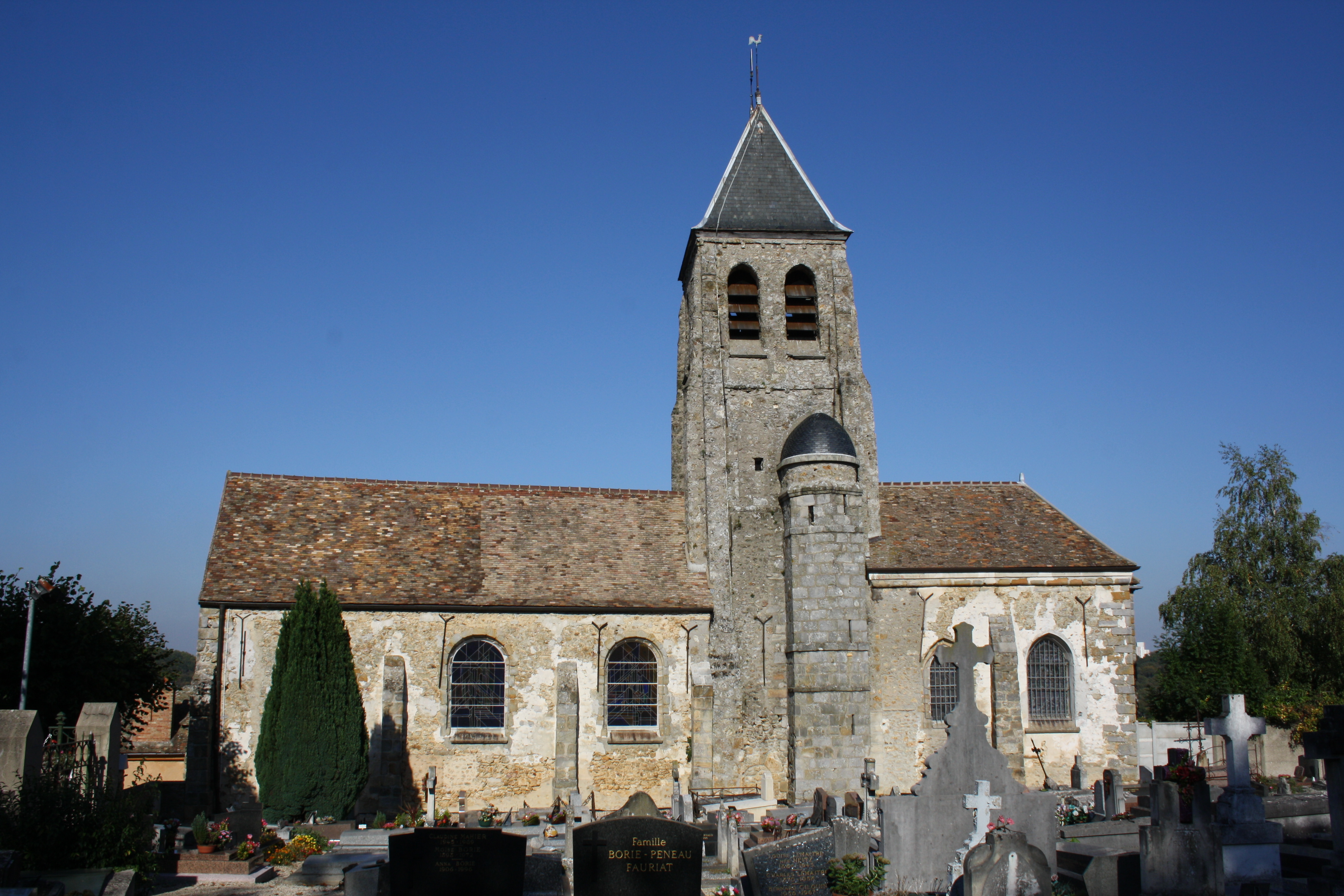 Saint-Clair church in Gometz-le-Châtel, France.